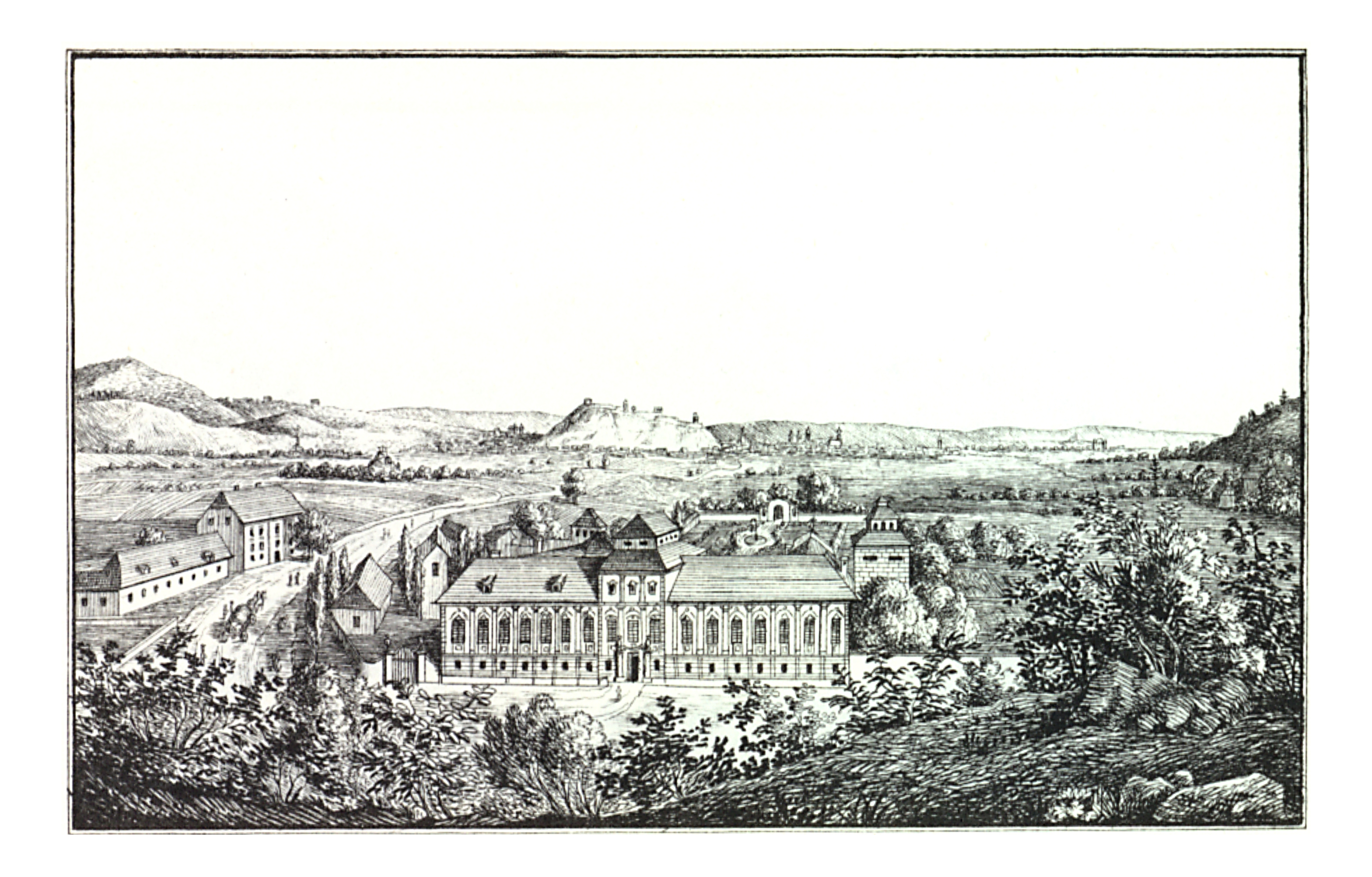 J. F. Kaiser - lithographirte Ansichten der Steyermärkischen Städte, Märkte und Schlösser, Graz 1824-1833 Joseph Franz Kaiser (1786–1859) Alternative names J. F. KaiserDescriptionAustrian printer and editorDate of birth/death 11 March 1786 19 September 1859Location of birth/death Graz (Styria) GrazAuthority control : Q1499963 VIAF: 30629353 ISNI: 0000 0000 3083 0153 LCCN: n87141671 GND: 129880159 NLP: A24960305 WorldCat creator QS:P170,Q1499963 . Scanprojekt Community Projektbudget 2012 This scan or this PDF-file was created within the GLAM-project Bookscanning, supported by Wikimedia Germany and Wikimedia Austria as a part of the community-project to capture books, documents and pictures which are not eligible to copyright or for which the copyright has expired. This document describes or depicts an object which is located in Austria today. Send requests for uncompressed scans to Hubertl. This work is in the public domain in its country of origin and other countries and areas where the copyright term is the author's life plus 100 years or less. You must also include a United States public domain tag to indicate why this work is in the public domain in the United States. This file has been identified as being free of known restrictions under copyright law, including all related and neighboring rights.